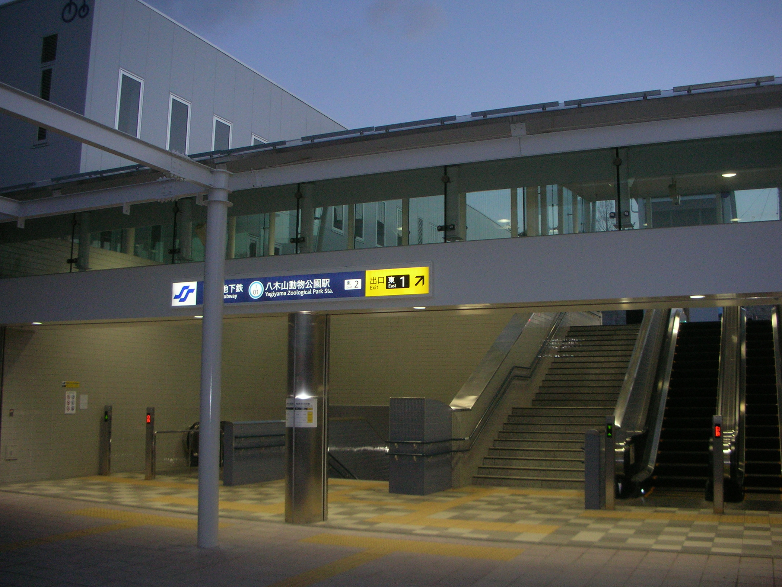 Yagiyama Zoological Park Station "East 1" entrance